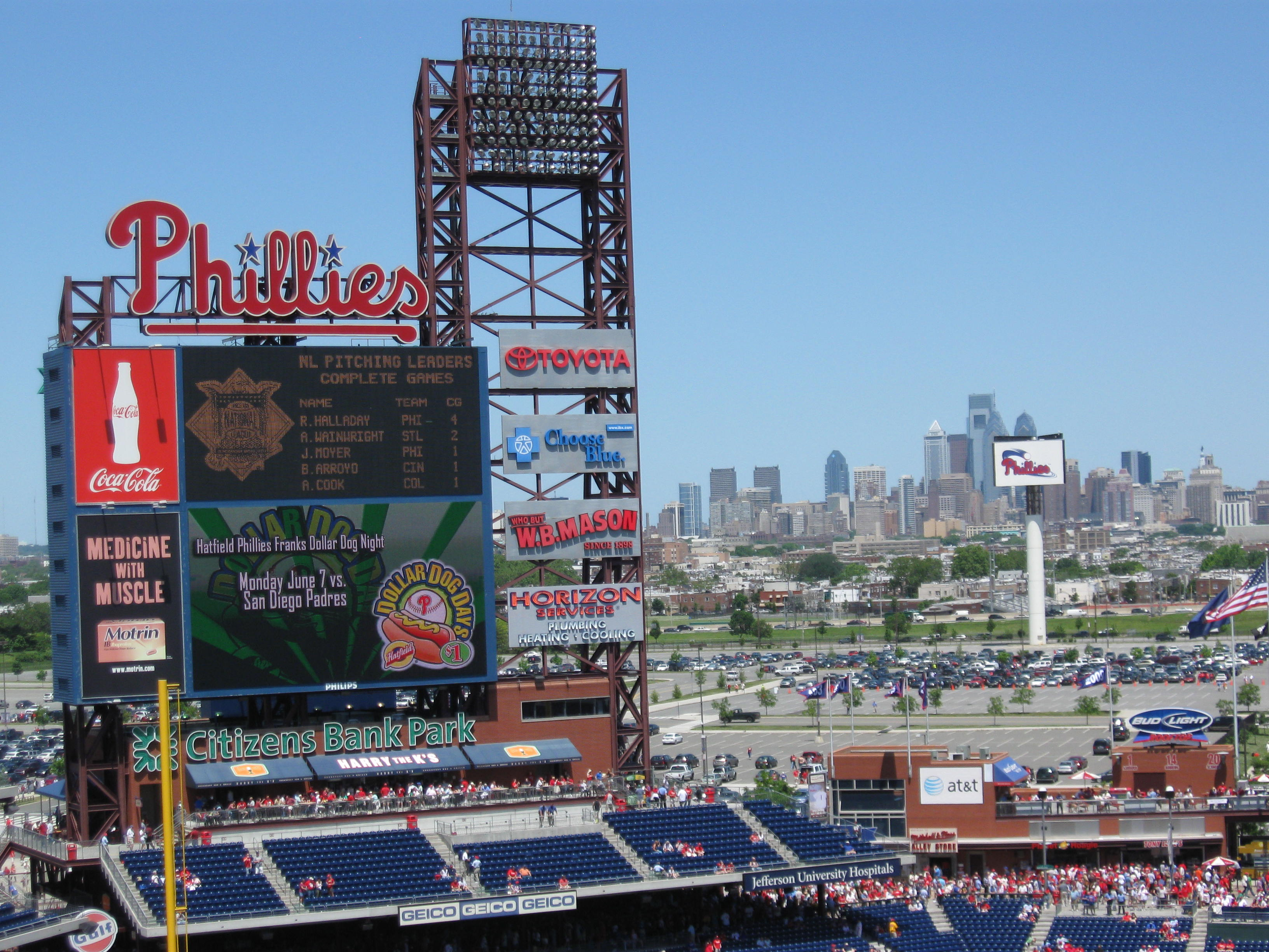 Description A view of Center City, Philadelphia from Citizens Bank Park Date30 June 2010, 19:13 (UTC)SourceI (Airtuna08 (talk)) created this work entirely by myself.AuthorAirtuna08 (talk) 19:13, 30 June 2010 . . Airtuna08 . . 3,264×2,448 (1.04 MB) A view of Center City, Philadelphia from Citizens Bank Park